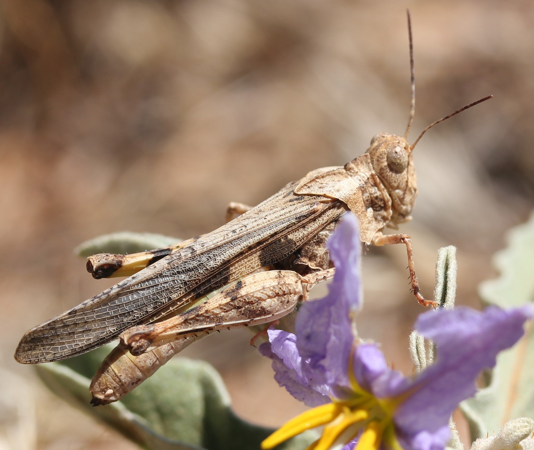 Conozoa carinata - Ridged Grasshopper. Species of insect.